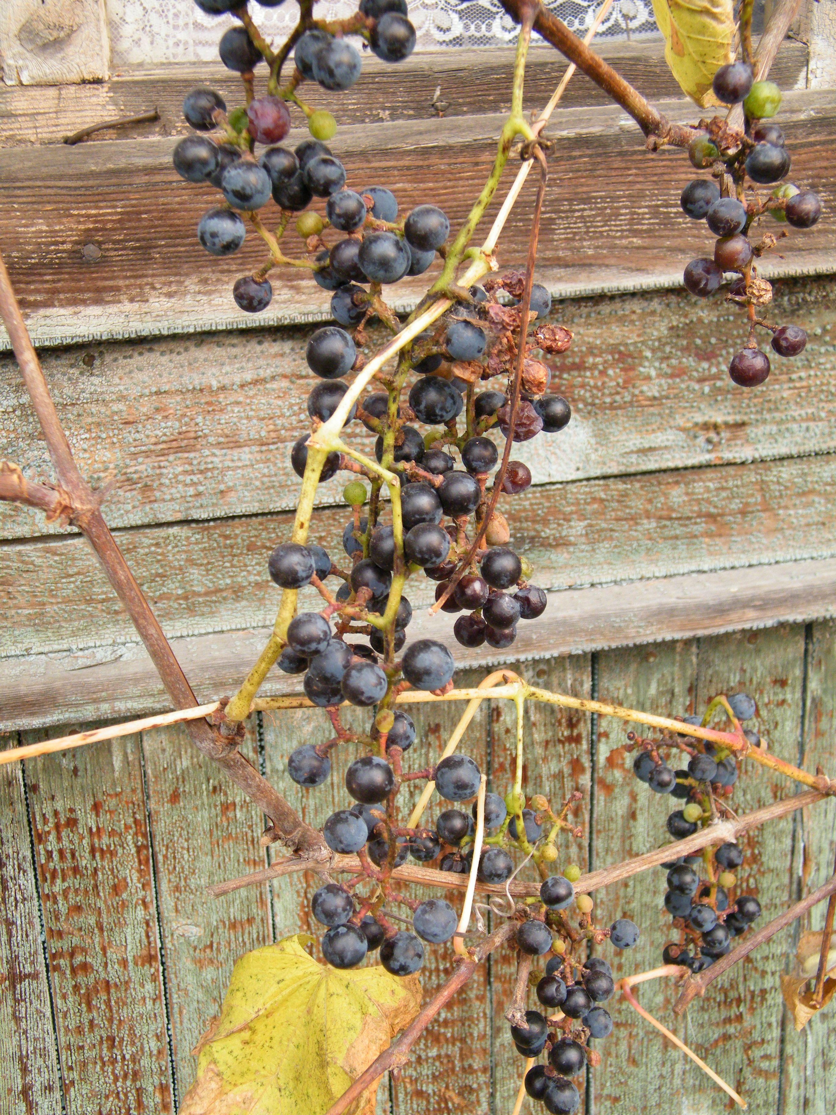 Vitis amurensis